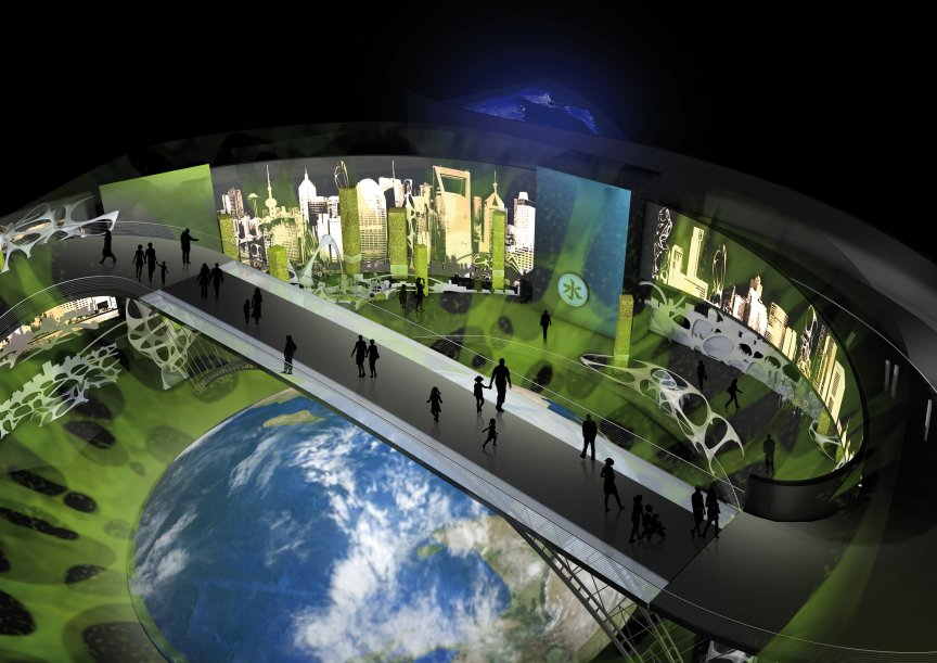 Draft of Urban Planet Pavilion at Expo 2010 in Shanghai. Design by Triad Berlin Projektgesellschaft.